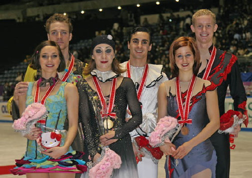 NHK Trophy 2008 ice dancing podium. Nathalie Péchalat / Fabian Bourzat (2), Federica Faiella / Massimo Scali (1), Emily Samuelson / Evan Bates (3)